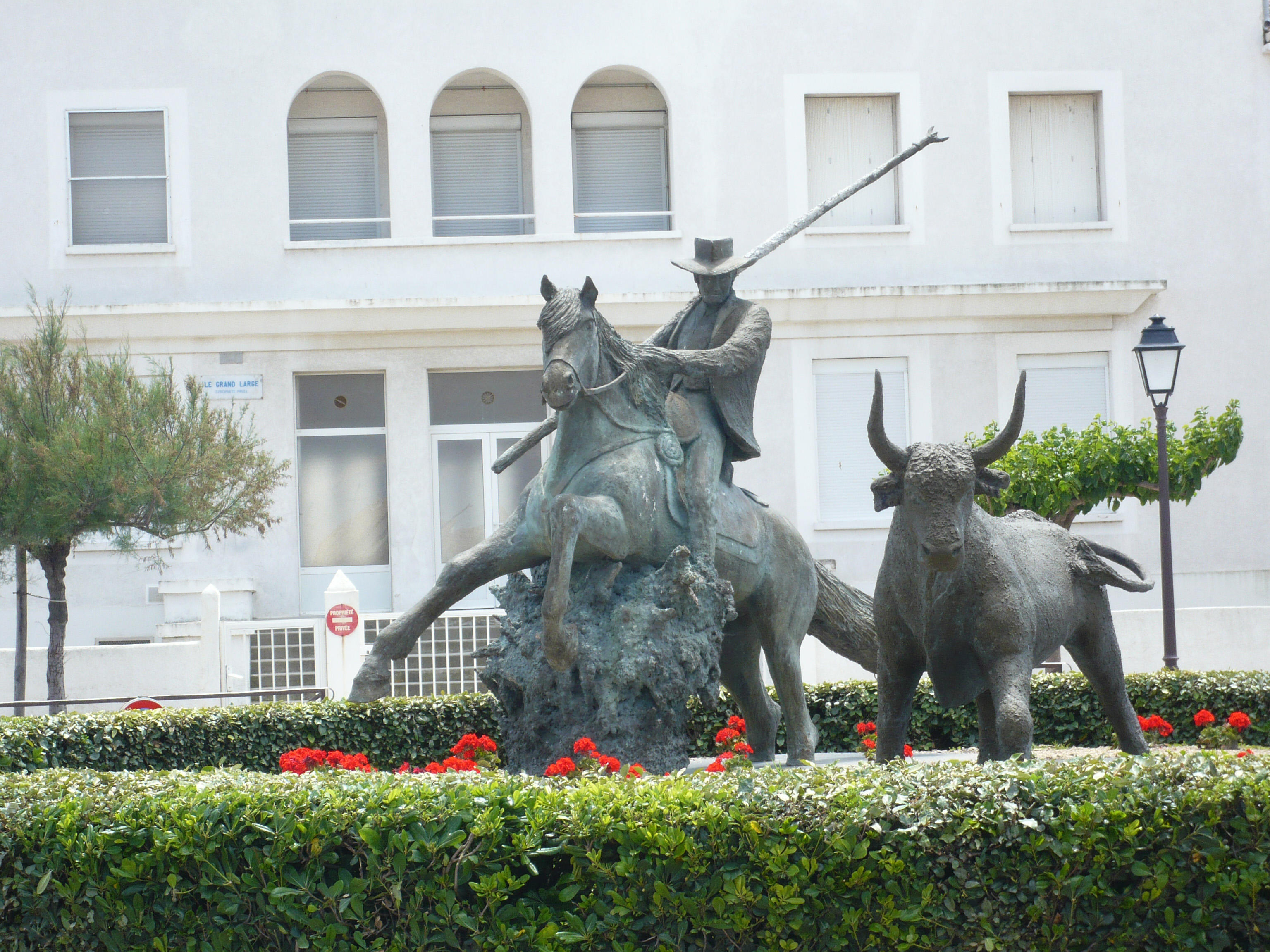 Witness the strong tradition of bullfighting, the tribute to the cowboys adorns the giratory of the Avenue Van Gogh, in front off the arenas.